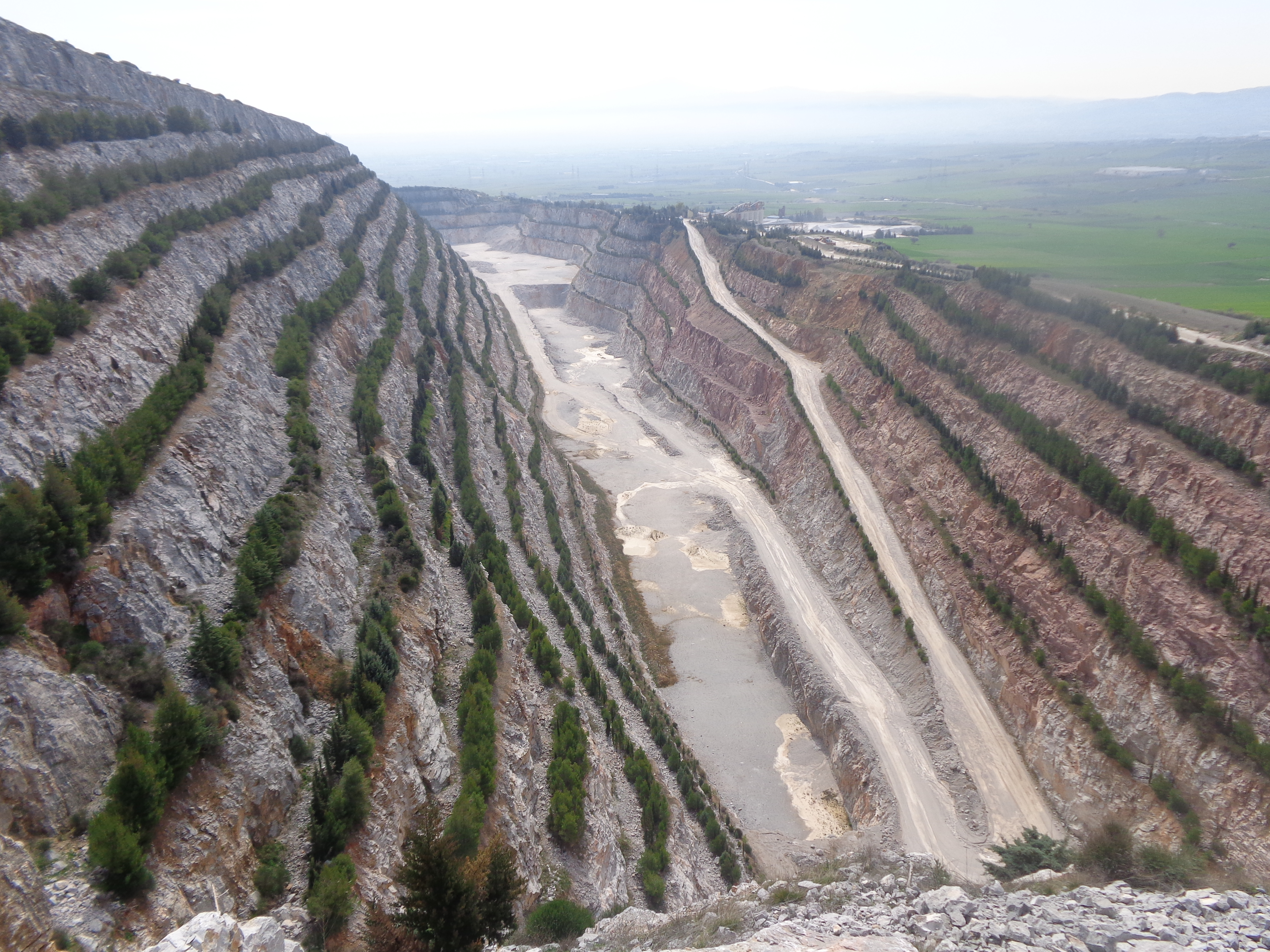 Quarry rehabilitation in Greece